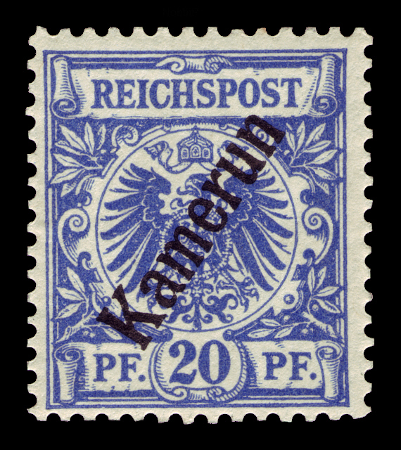 stamp series for German Colonies Ausgabepreis: 20 Pfennig First Day of Issue / Erstausgabetag: Mai 1897 Michel-Katalog-Nr: 4 (Deutsche Kolonie Kamerun)